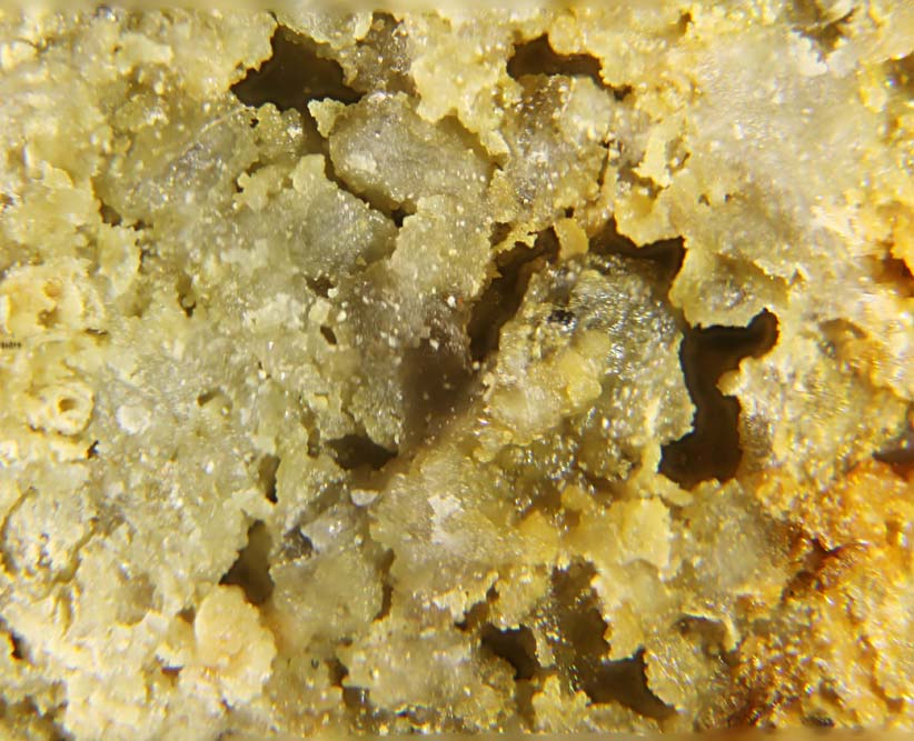 Yellowish crystals of the rare arsenate mineral zykaite from the type locality: Kaňk, Kutná Hora (Kuttenberg), Bohemia, Czech Republic.